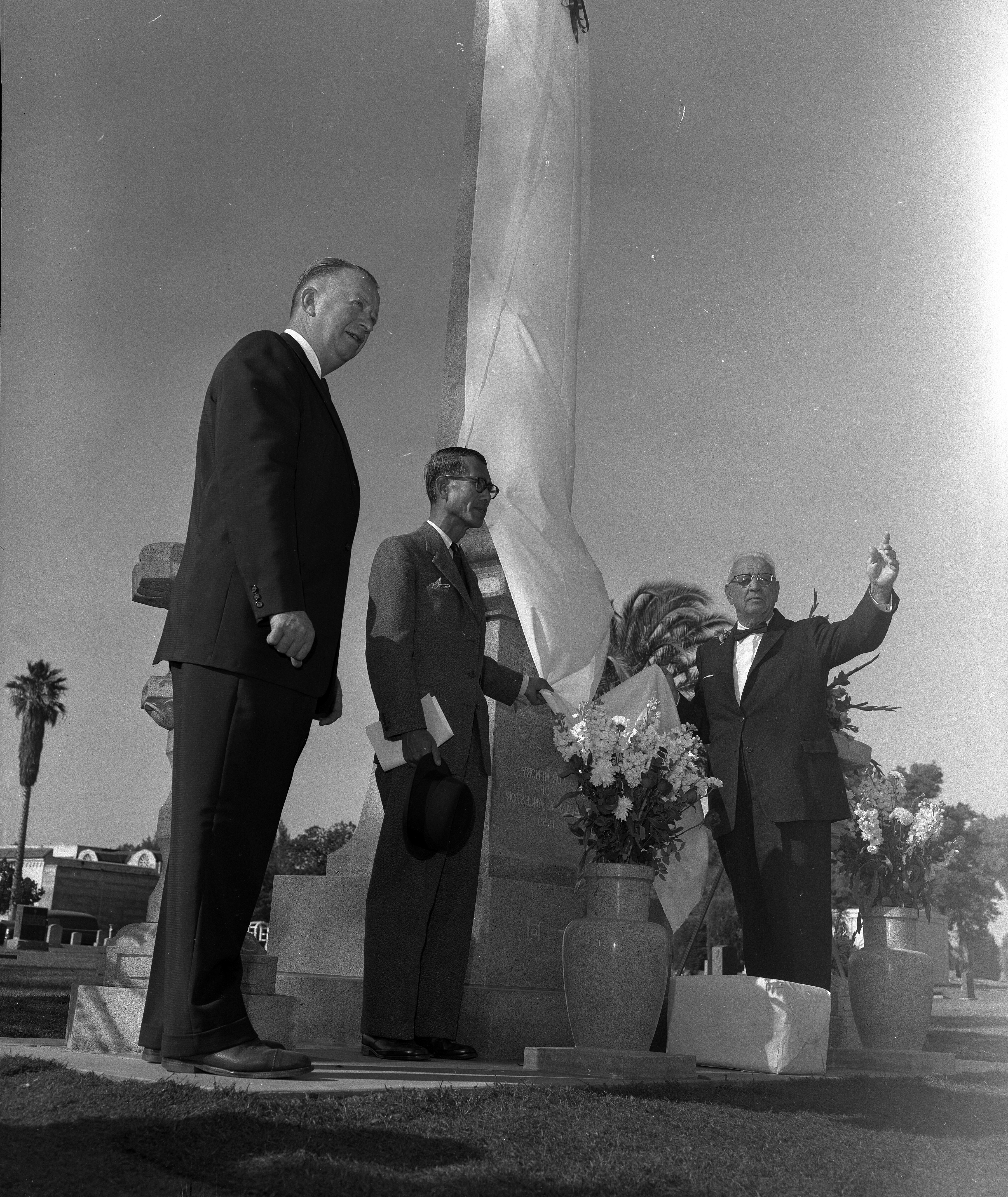 Title: Dedication of a memorial tower for Nisei who died serving the United States, Santa Monica, Calif., 1959 Published caption:AT DEDICATION-Among dignitaries at dedication of a memorial tower in Santa Monica are Col. Carl F. White, Los Angeles customs chief, on left, and Yukio Hasumi, consul general of Japan. The event honored Nisei who died serving the United States.